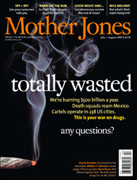 Cover of the July/August 2009 issue of Mother Jones Magazine